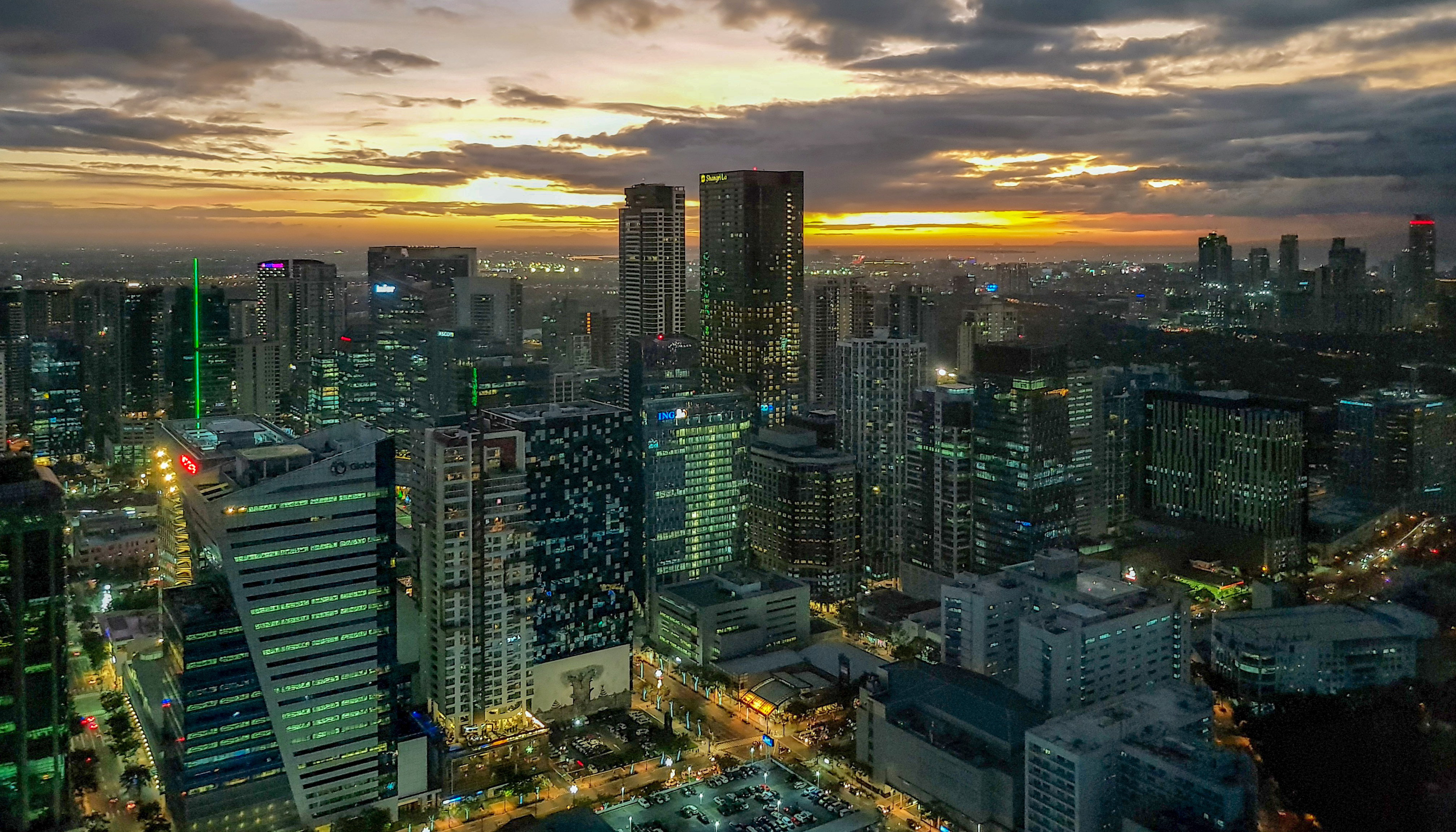 View from Grand Hyatt Manila overlooking Bonifacio Global City and Makati skylines at sunset